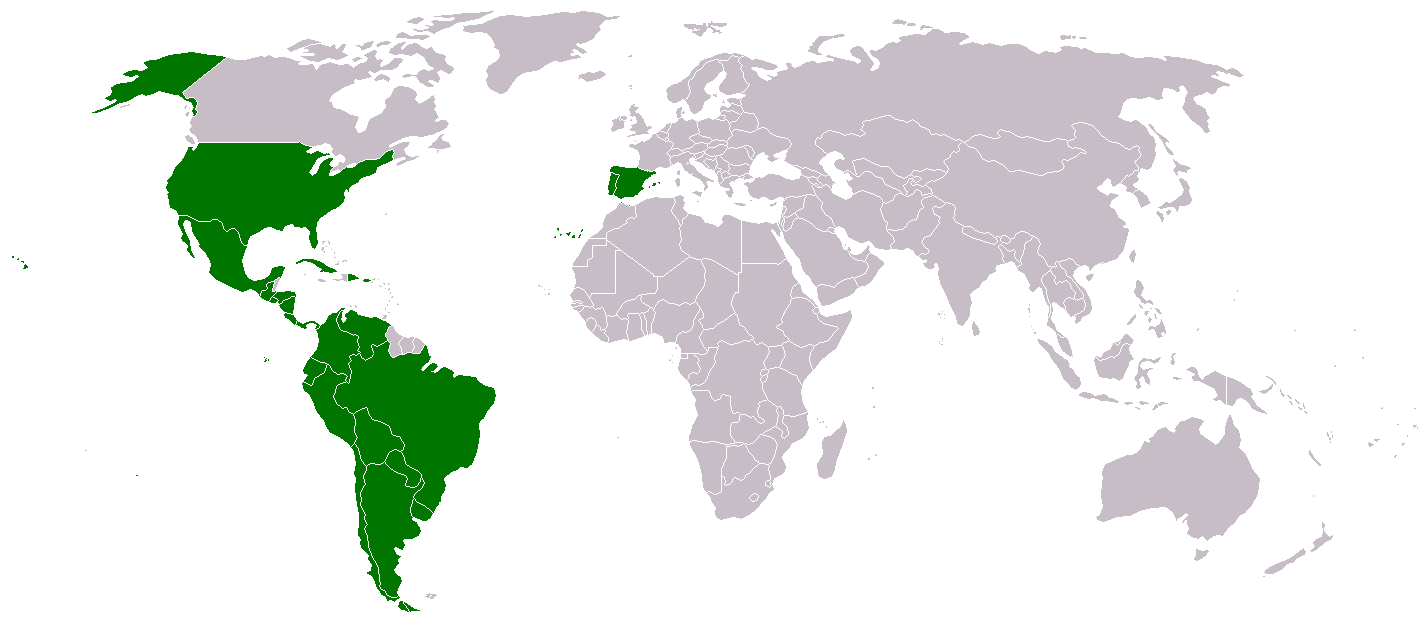 Map of where voting members of the Latin Academy of Recording Arts & Sciences live.